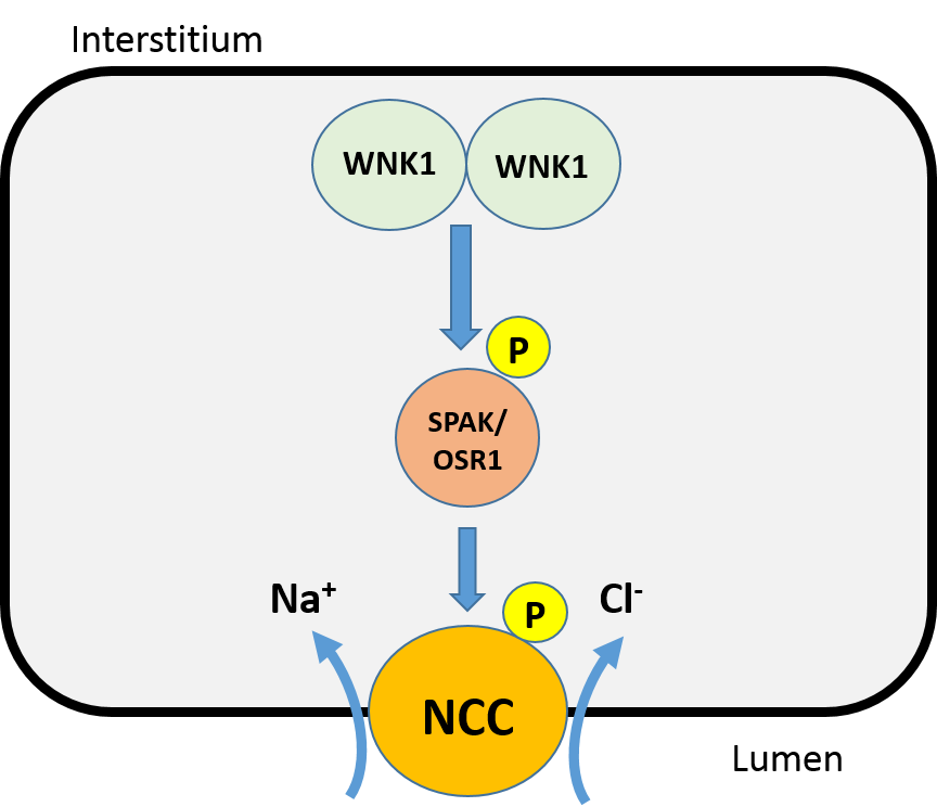 This a diagram of how the NCC works in the nephron.